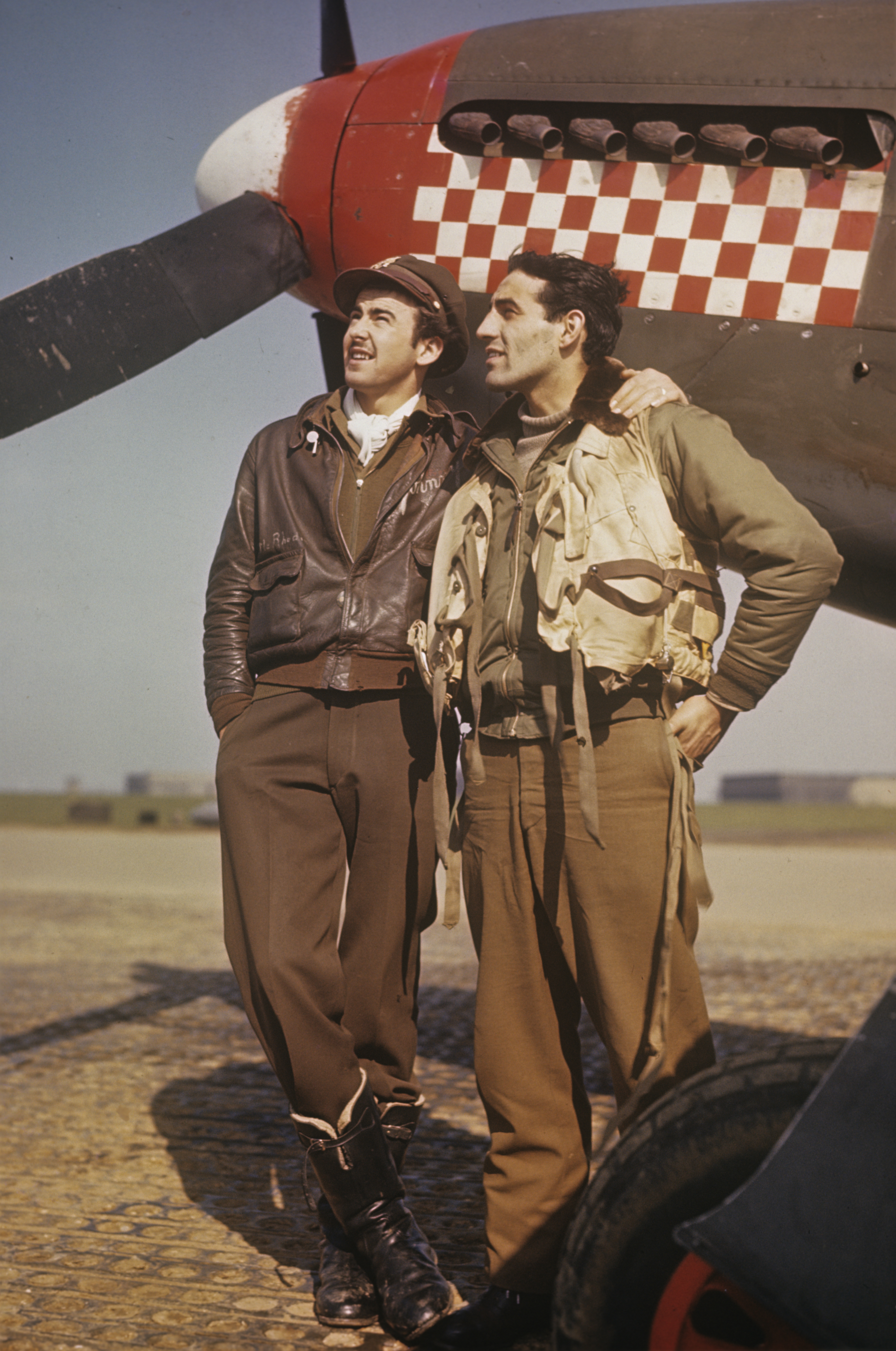 John Godfrey and Don Gentile, two pilots of the 336th Fighter Squadron, the 4th Fighter Group, at Debden